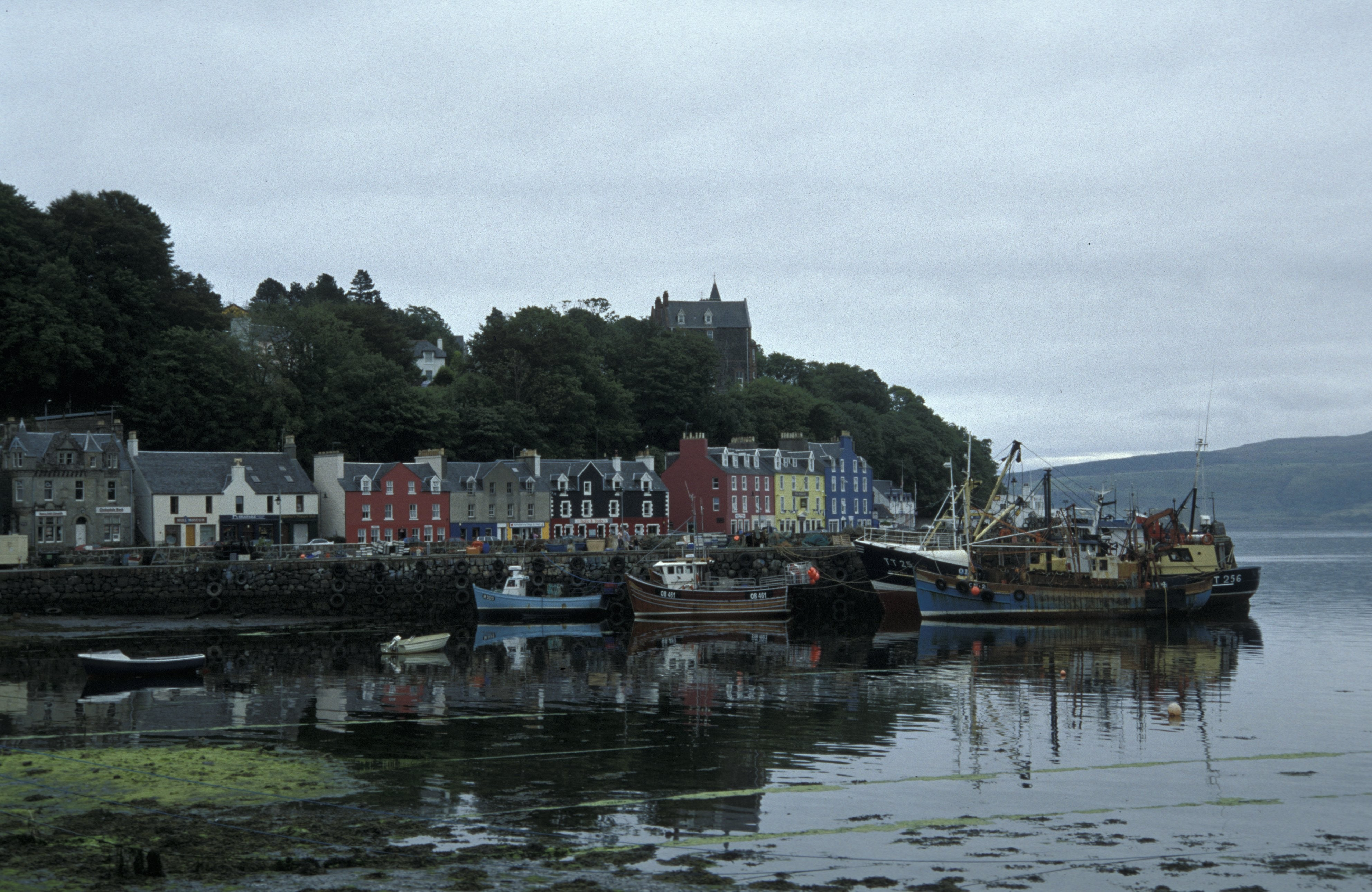 Tobermory (city), Mull (island), Scotland